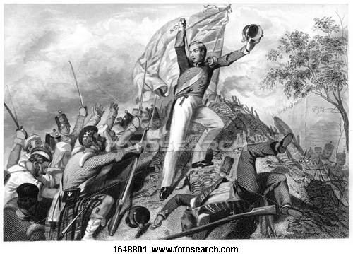 Indian History. Revolt of 1857